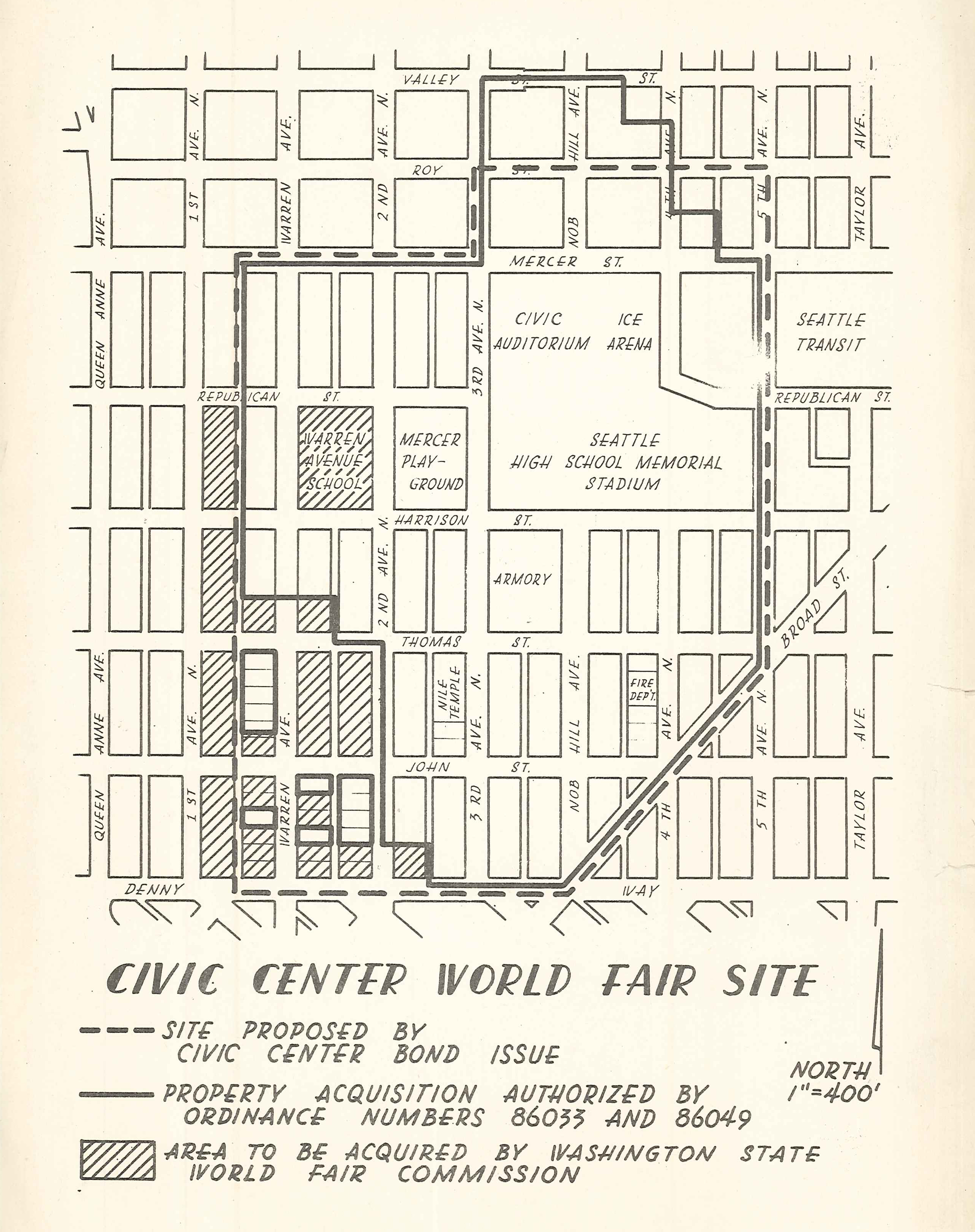 1960 map of what became the grounds of the Century 21 Exposition and later Seattle Center. Found in Vertical File 431, Seattle Municipal Archives.